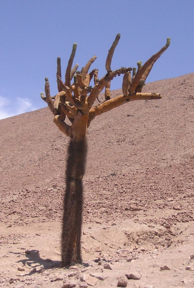 Browningia candelaris (cactus candelabro)